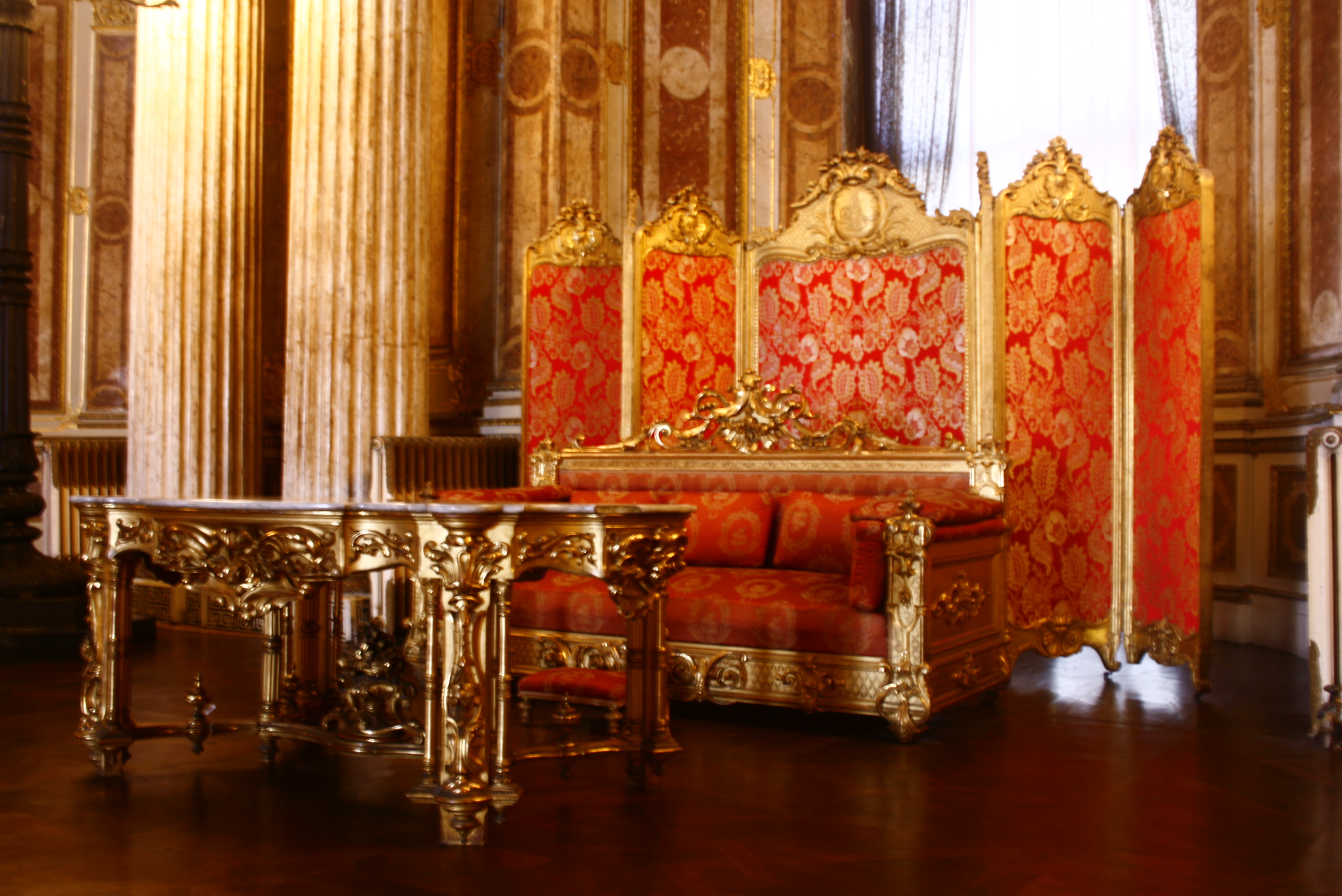 Thron